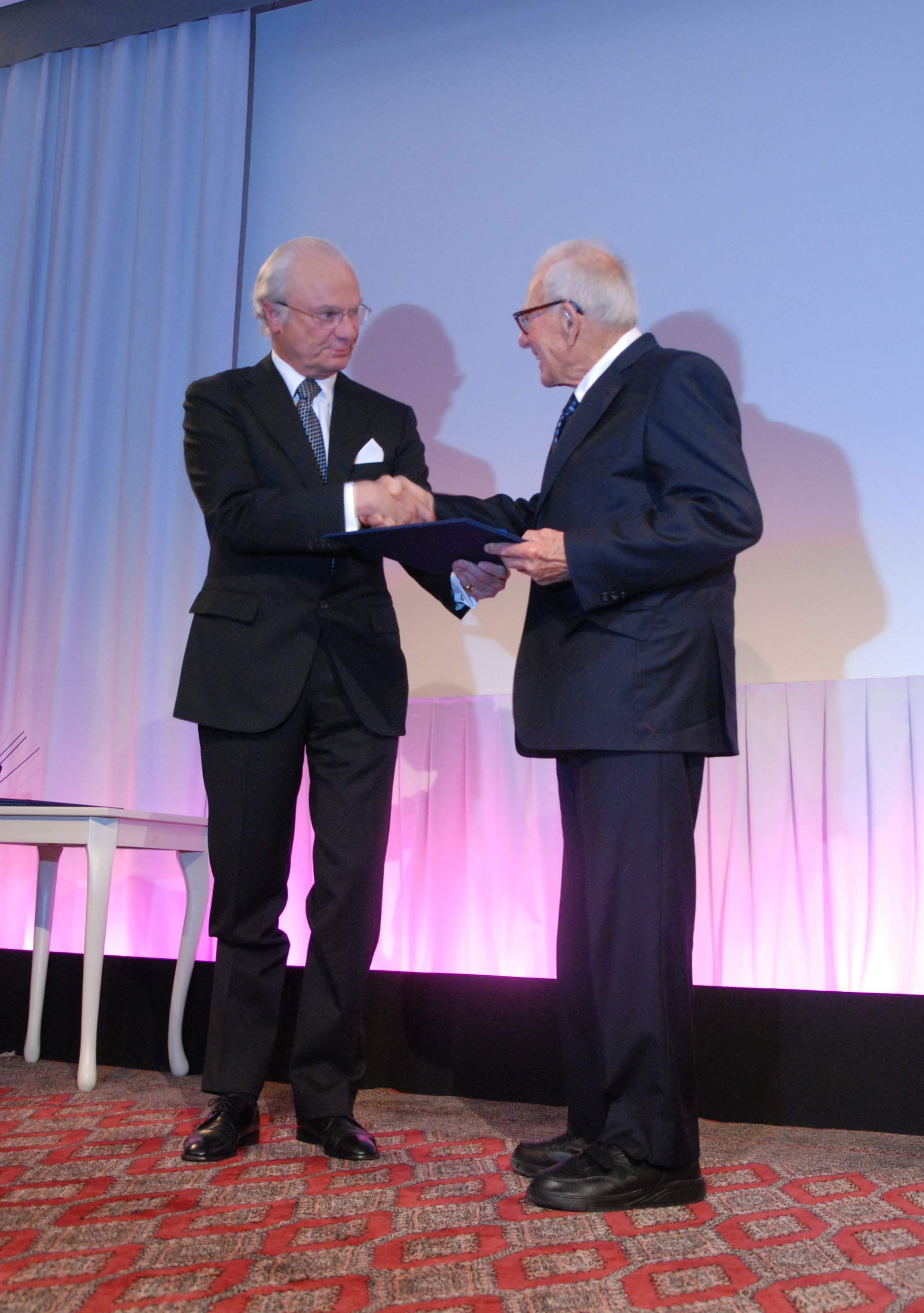 Crafoord Prize 2010, Prize award ceremony: King Carl XVI Gustaf of Sweden presents the prize to Walter Munk